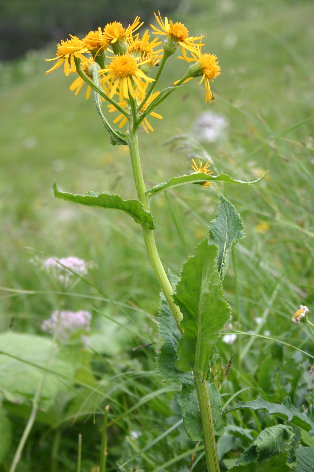 Tephroseris crispa